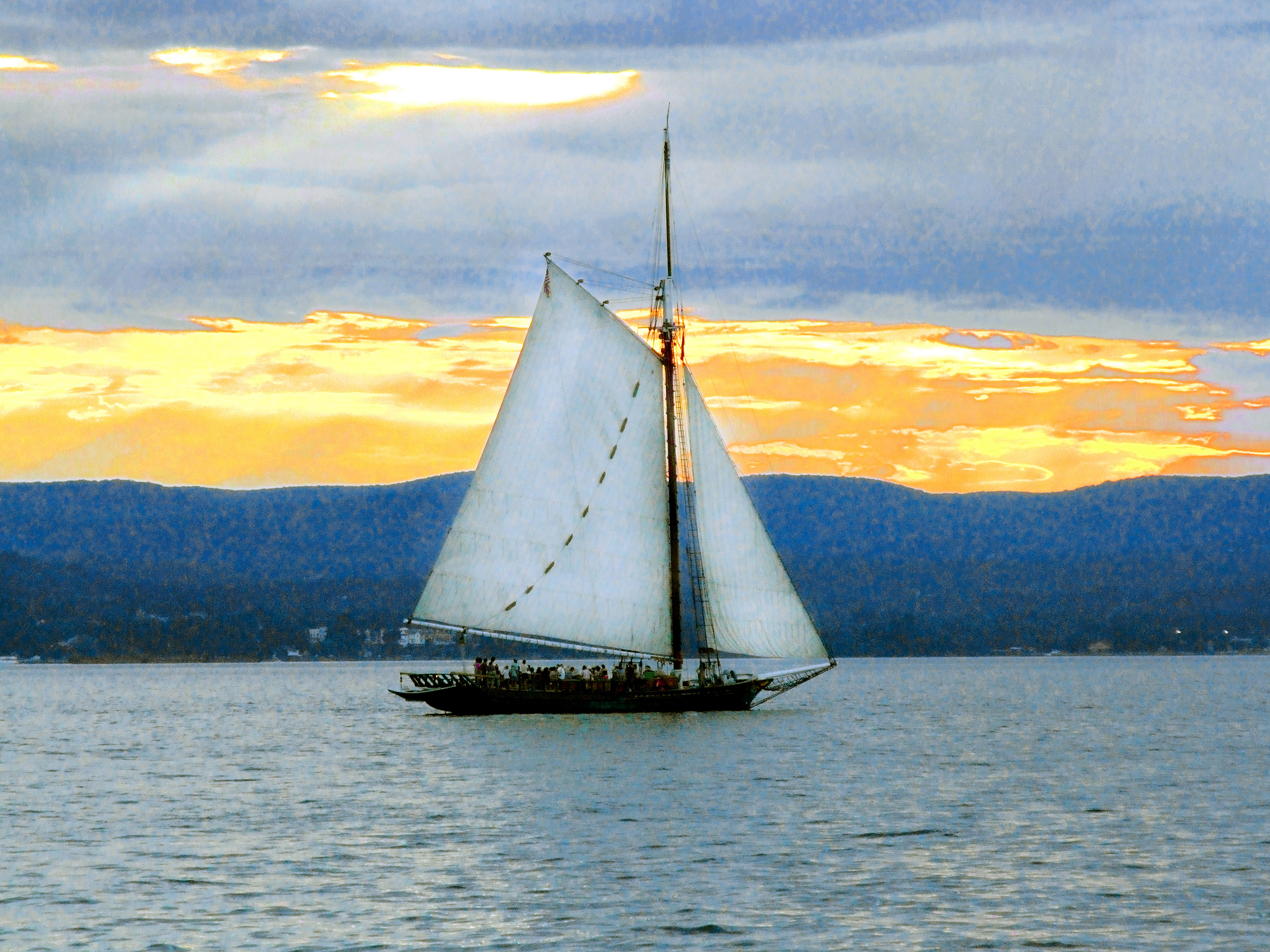 Sloop Clearwater sailing up the Hudson River photographed by Anthony Pepitone